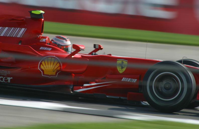 Kimi Raikkonen driving for Ferrari at the 2007 United States Grand Prix.